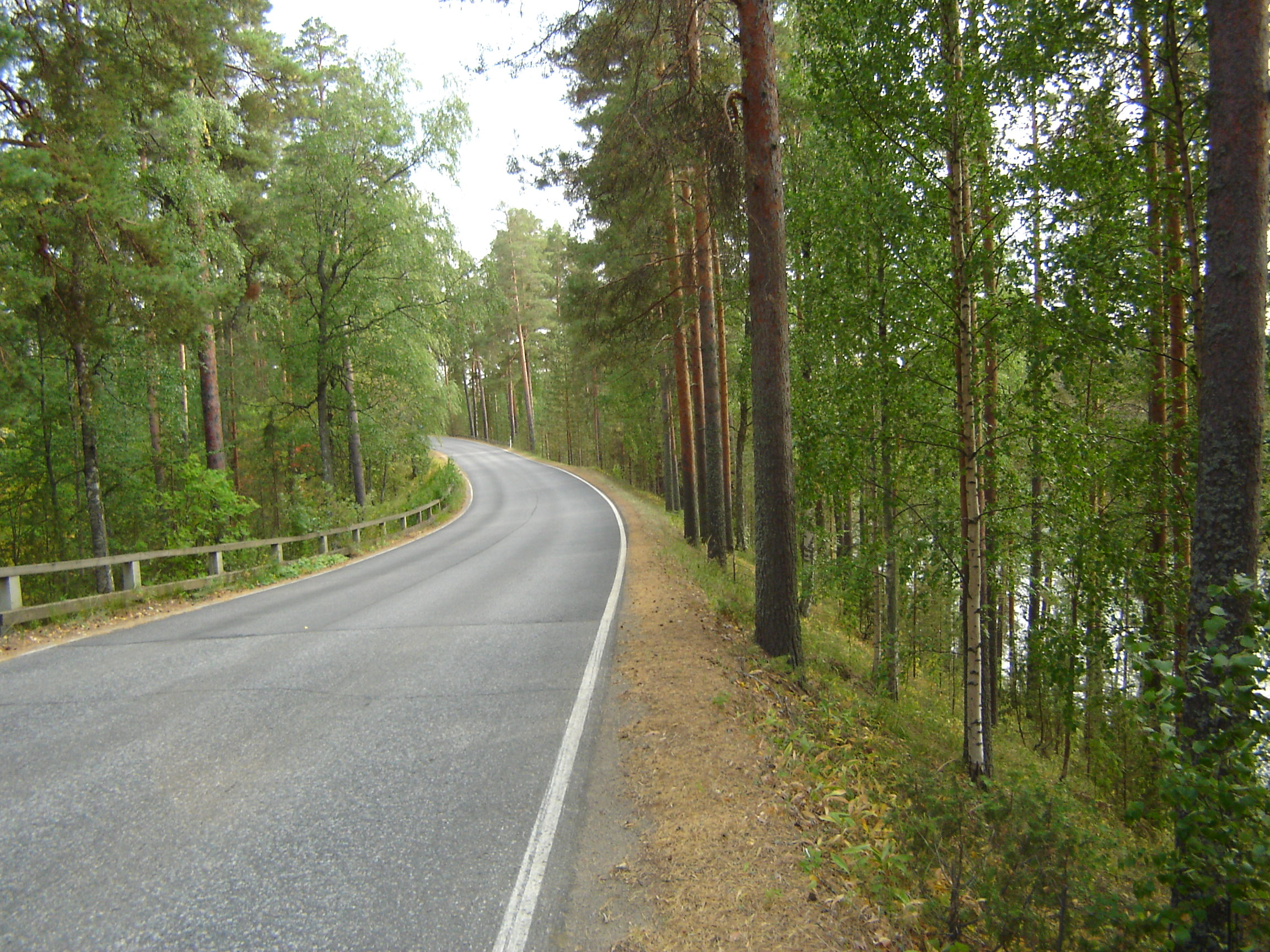 Connecting road 4792 (former highway 14) on the esker of Punkaharju, Finland